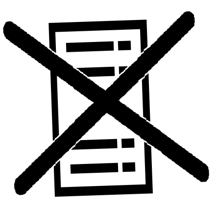 None of the Above (NOTA) election symbol in India